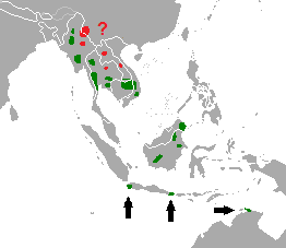 Present range (green) and possible present range (red) of the Banteng (Bos javanicus)